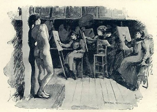 Newcombe Colarrossi women sketching life model in 1894 by Bertha Newcombe